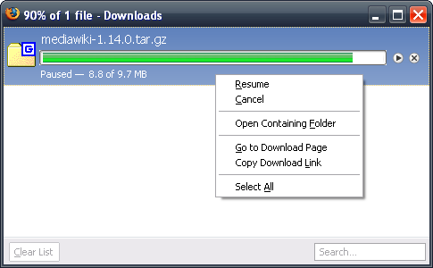 The firefox download manager running on WinXP SP3, with firefox 3.0.8